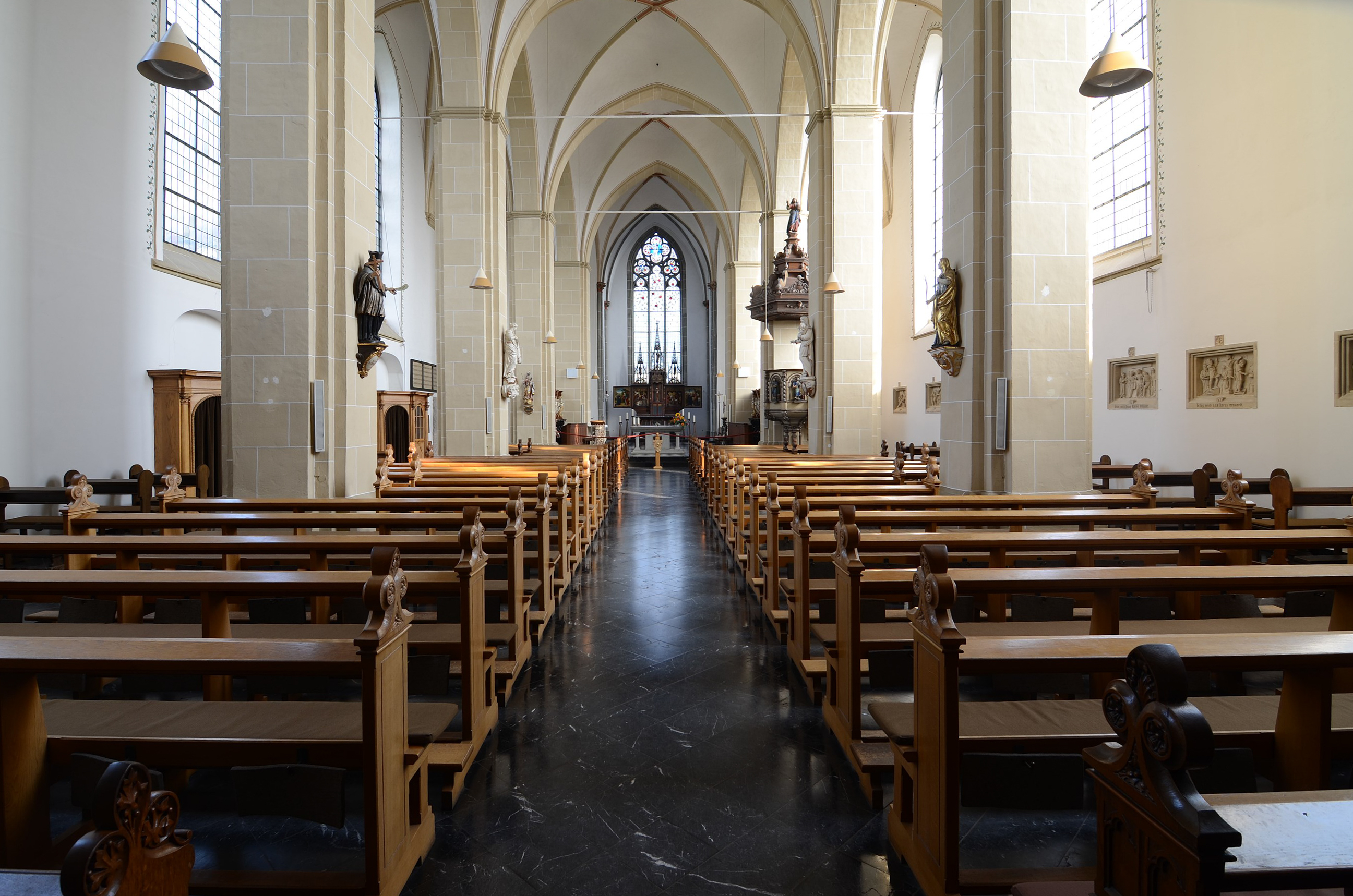 Kamp-Lintfort (North Rhine-Westphalia, Germany) – Kamp Abbey – abbey church – interior view This image shows a heritage building in Germany, located in the North Rhine-Westphalian city Kamp-Lintfort (no. 1). This photograph was taken with a Nikon D7000